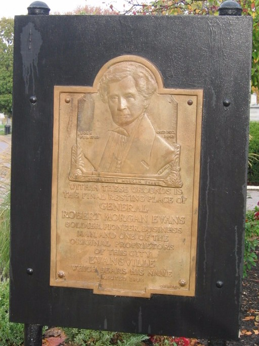 Plaque at Oakhill Cemetery in Evansville, Indiana. "Within these grounds is the final resting place of General Robert Morgan Evans, soldier, pioneer, business man, and one of the original proprietors of this city, Evansville, which bears his name"